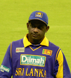 Picture of Sanath Jayasuriya, cropped image of Image:Jayasuriya.jpg, by TonyPatterson